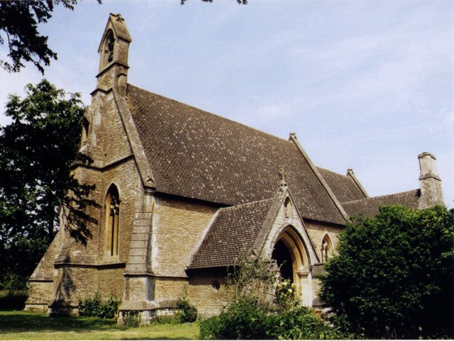 Roman Catholic church of St George, Buckland, Oxfordshire (formerly Berkshire), viewed from the southwest